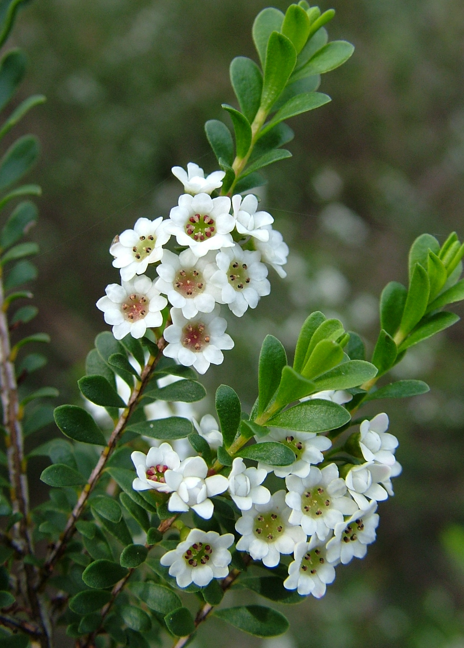 Thryptomene calycina, Grampians, Vic., Australia